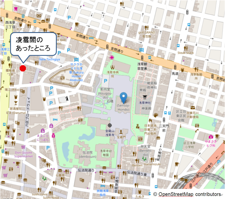 The Ryōunkaku (凌雲閣 Ryōunkaku, lit. Cloud-Surpassing Pavilion or Cloud-Surpassing Tower) map